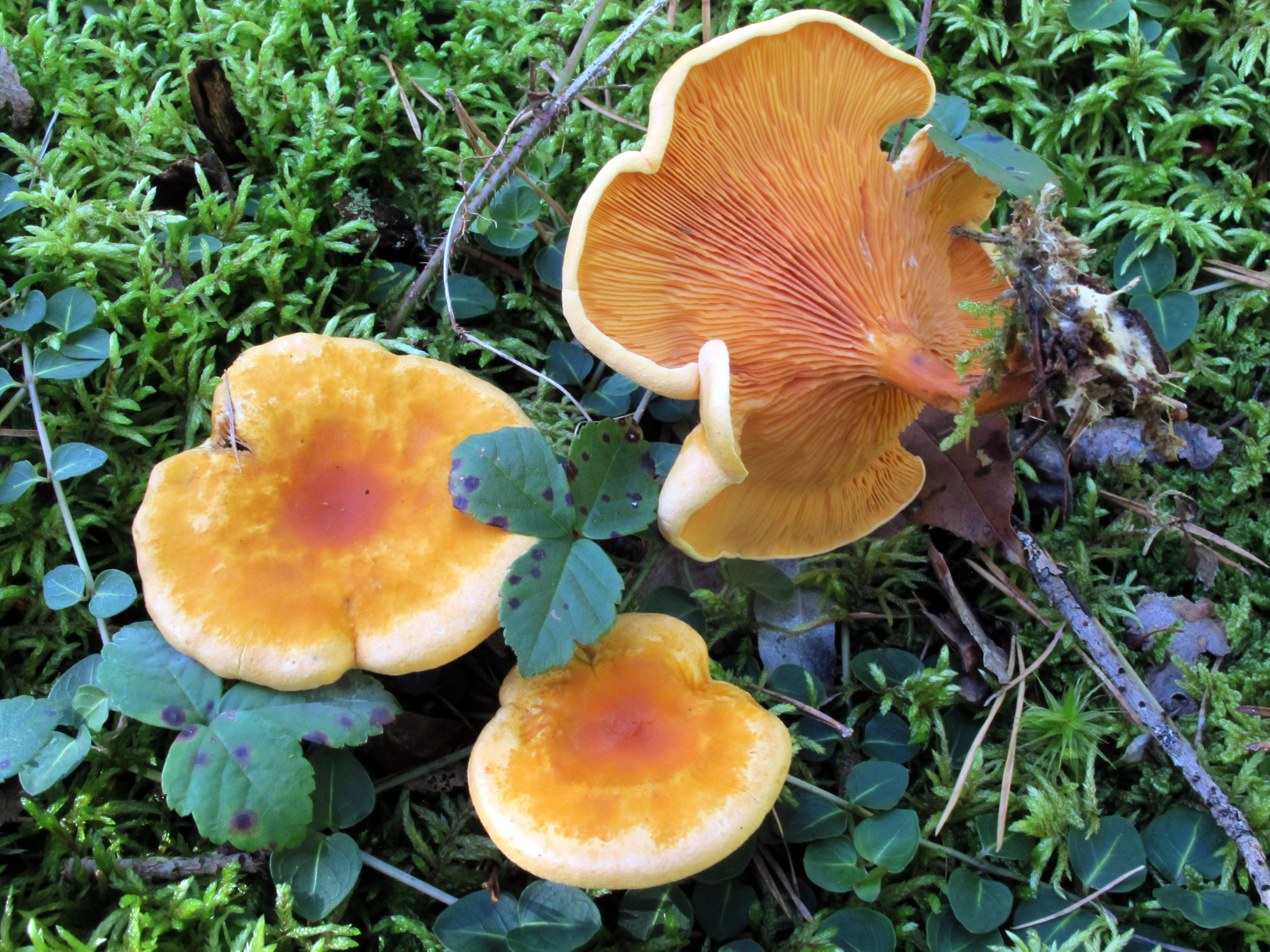 Fruit bodies of the fungus Hygrophoropsis aurantiaca (Wulfen) Maire. Photographed in State Game Lands Number 72, Clarion, Pennsylvania, USA.